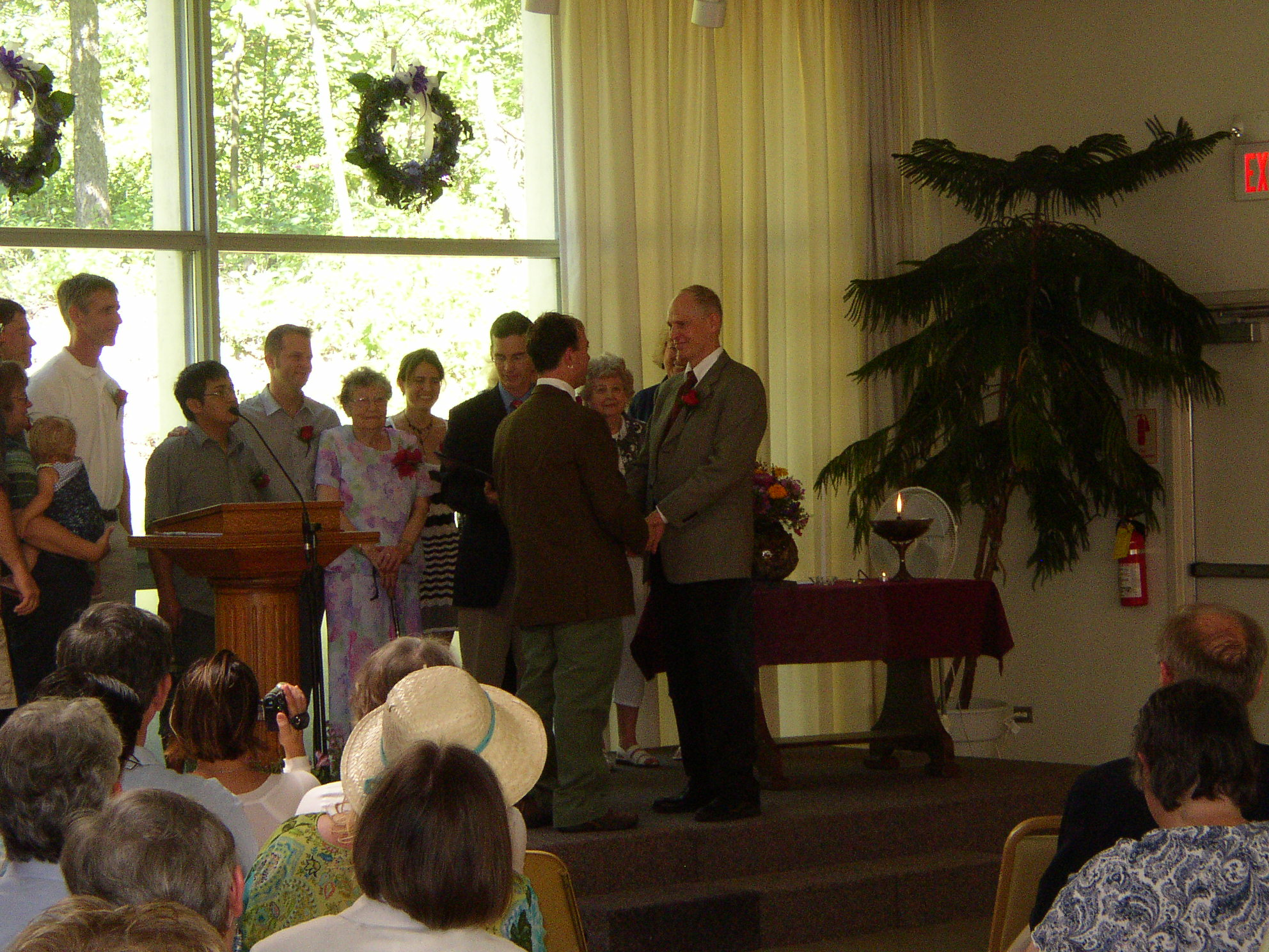 I took this picture of Terry Lowman and Mark Kassis exchanging vows at their wedding, which took place at the Unitarian Universalist fellowship in Ames, Iowa, on Sunday, September 2, 2007. They are the second same sex Iowa couple to marry after obtaining a legal marriage certificate in Polk County, Iowa.